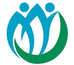 Gosen Niigata chapter